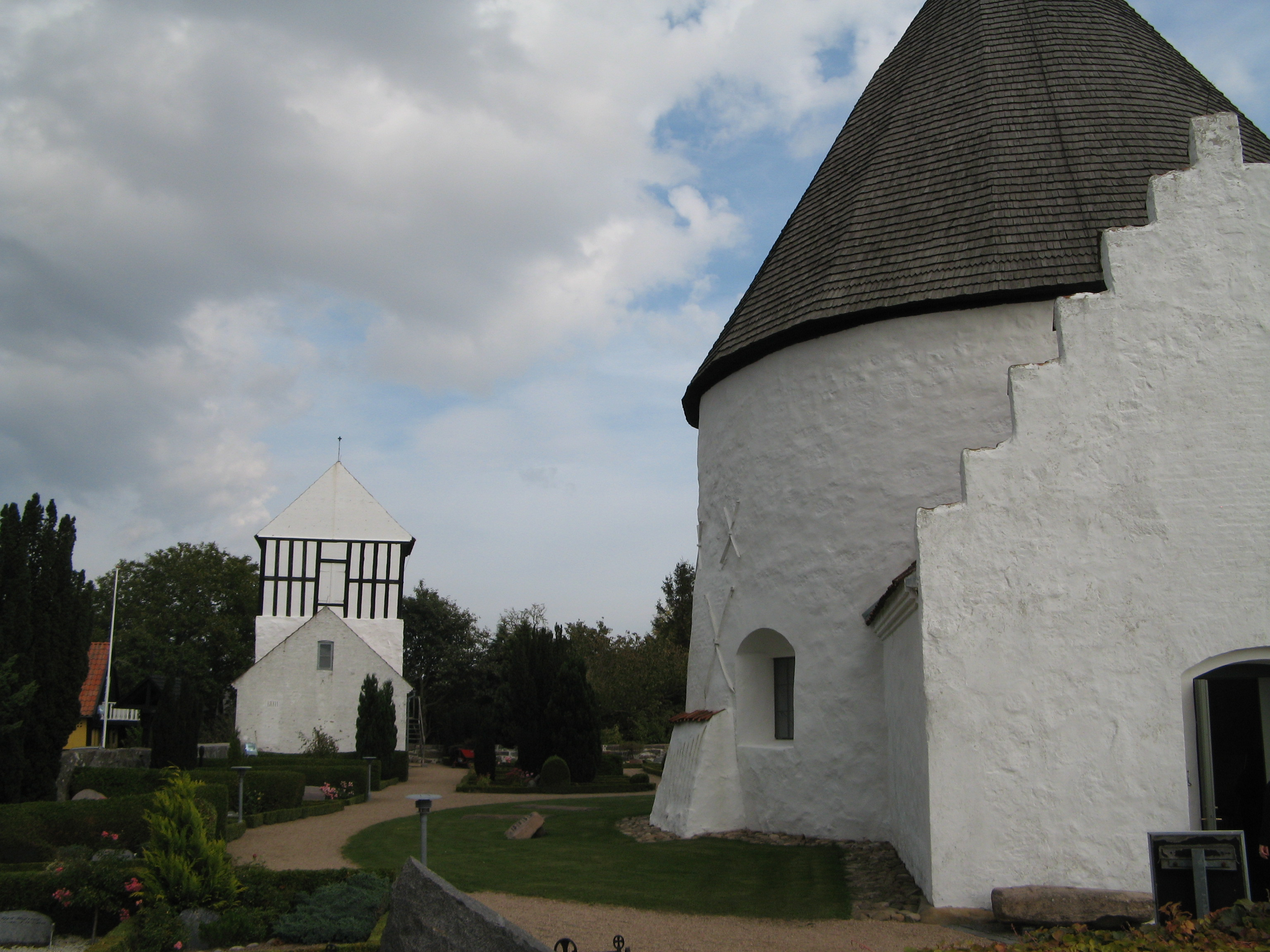 Ny Kirke